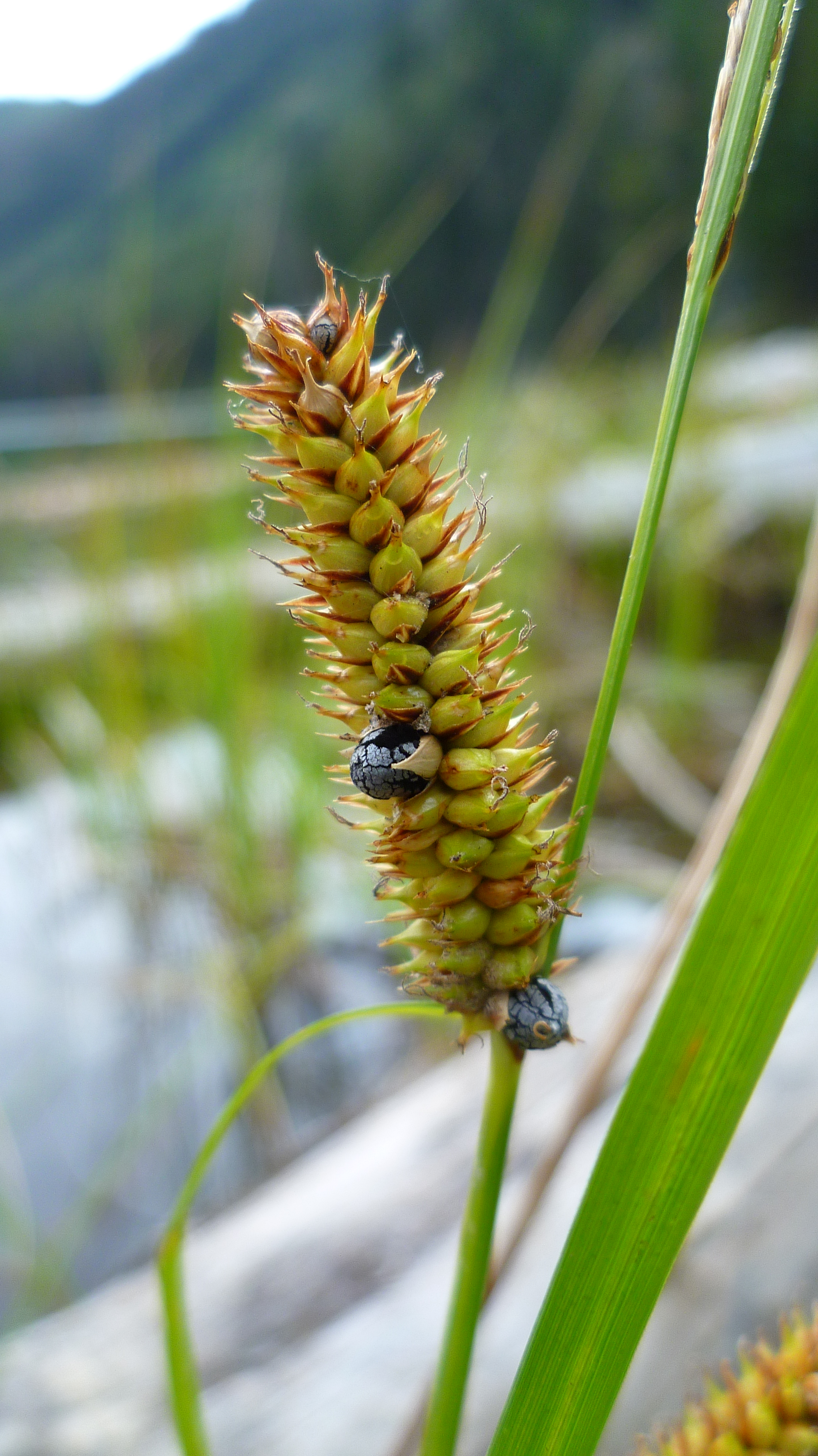 Carex utriculata infected with smut at Myrtle Lake, Chelan County Washington